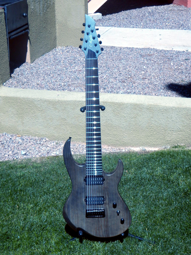 Agile Intrepid Standard Dual in Charcoal finish